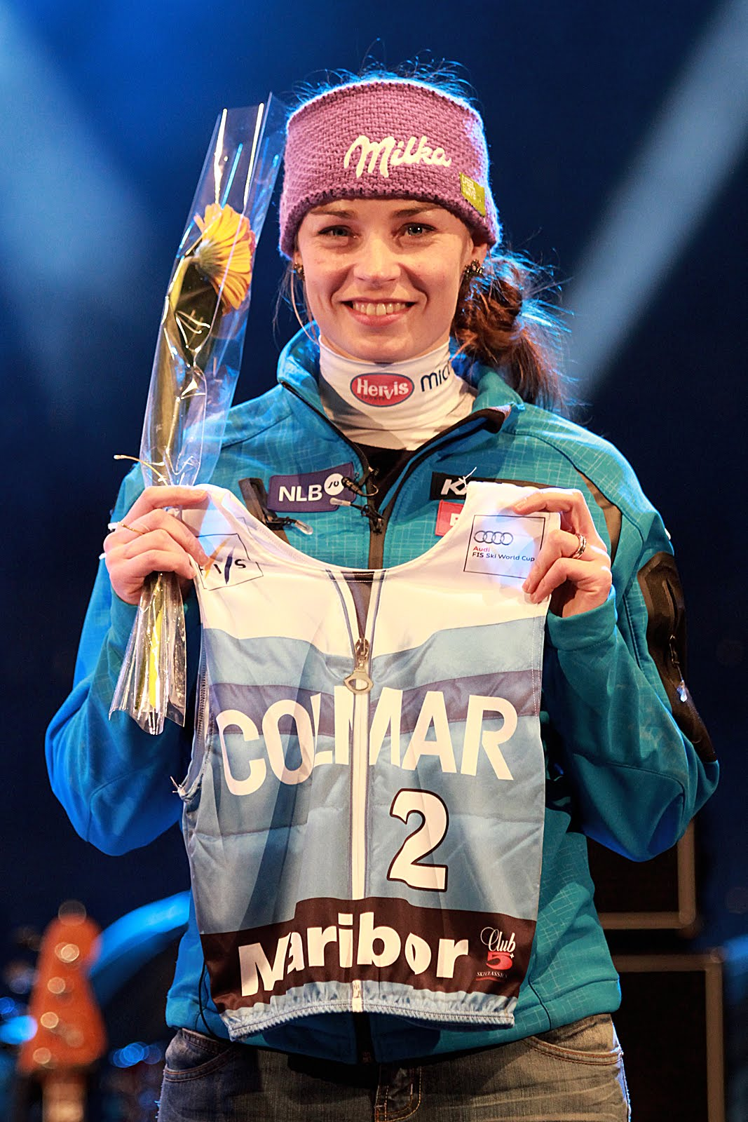 Zlata lisica 2011